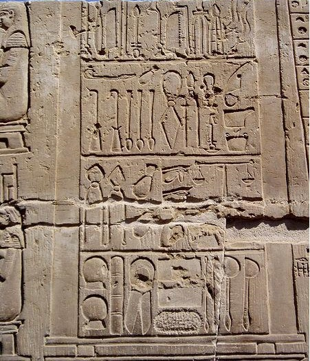 Medical instruments. Surgery tools pictured on the backside wall of the temple Kom Ombo, Egypt.